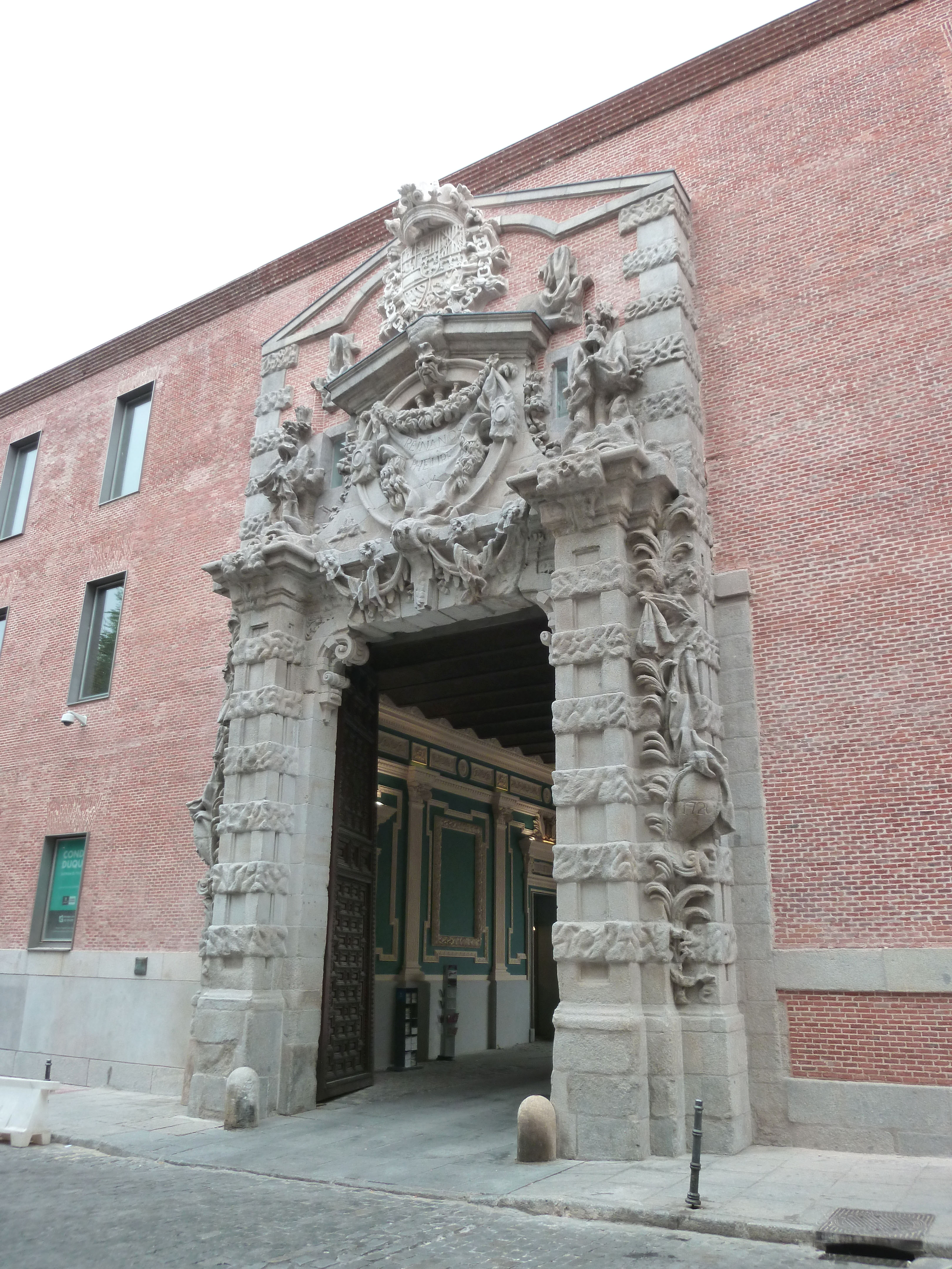 Entrance of Cuartel del Conde-Duque in Madrid (Spain), at the south-east façade.